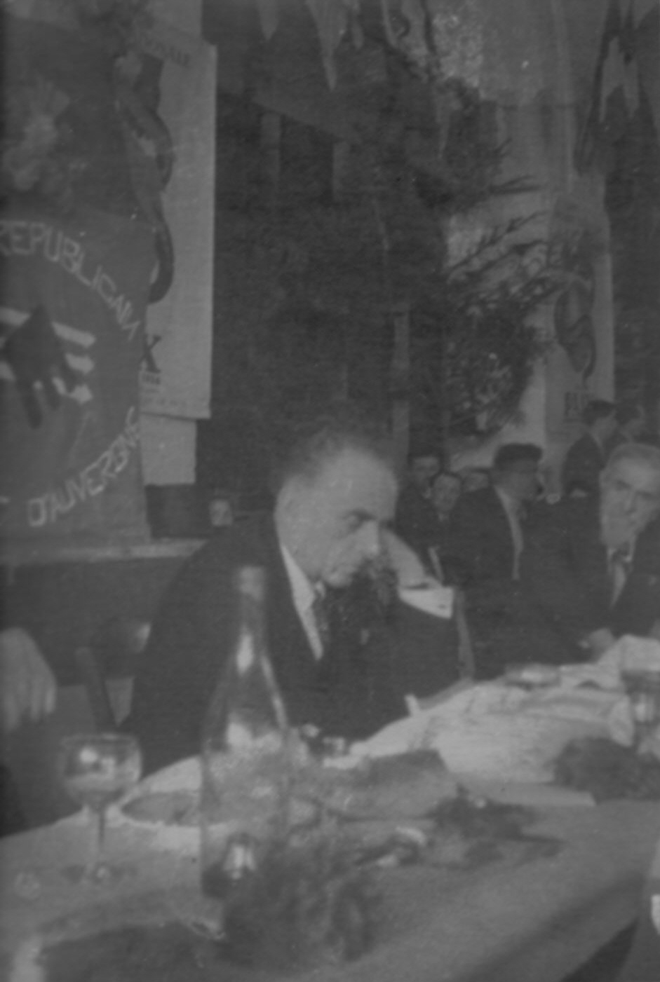 Paul Faure listening to a discussion at the Fete Republicaine et Socialiste de Brioude.